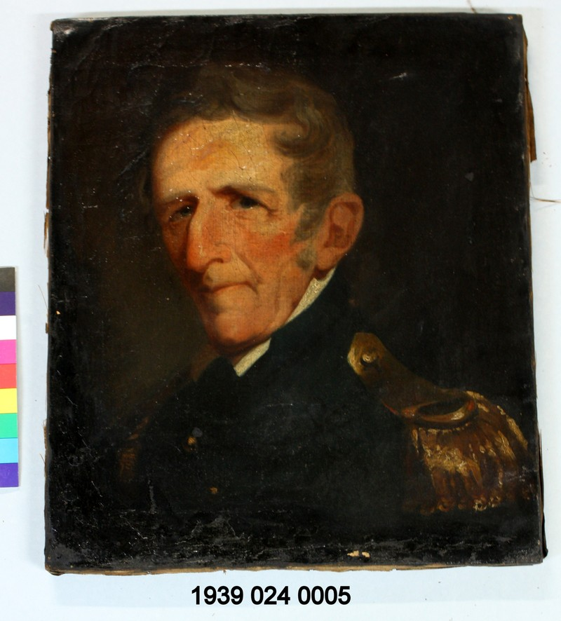 Oil on canvas painting of Samuel Hopkins